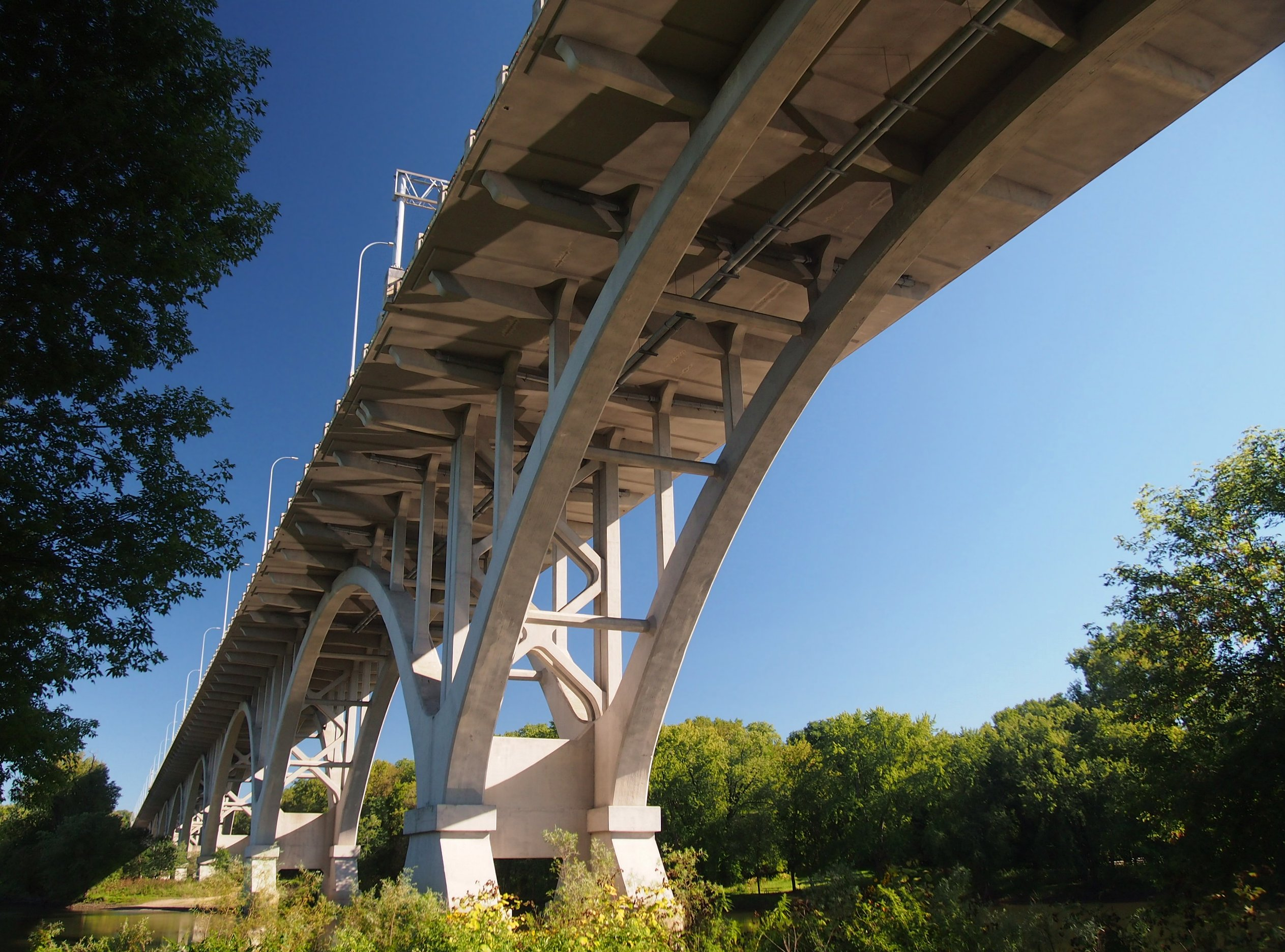 Underside of the Mendota Bridge from Picnic Island, Fort Snelling State Park, Minnesota, USA.